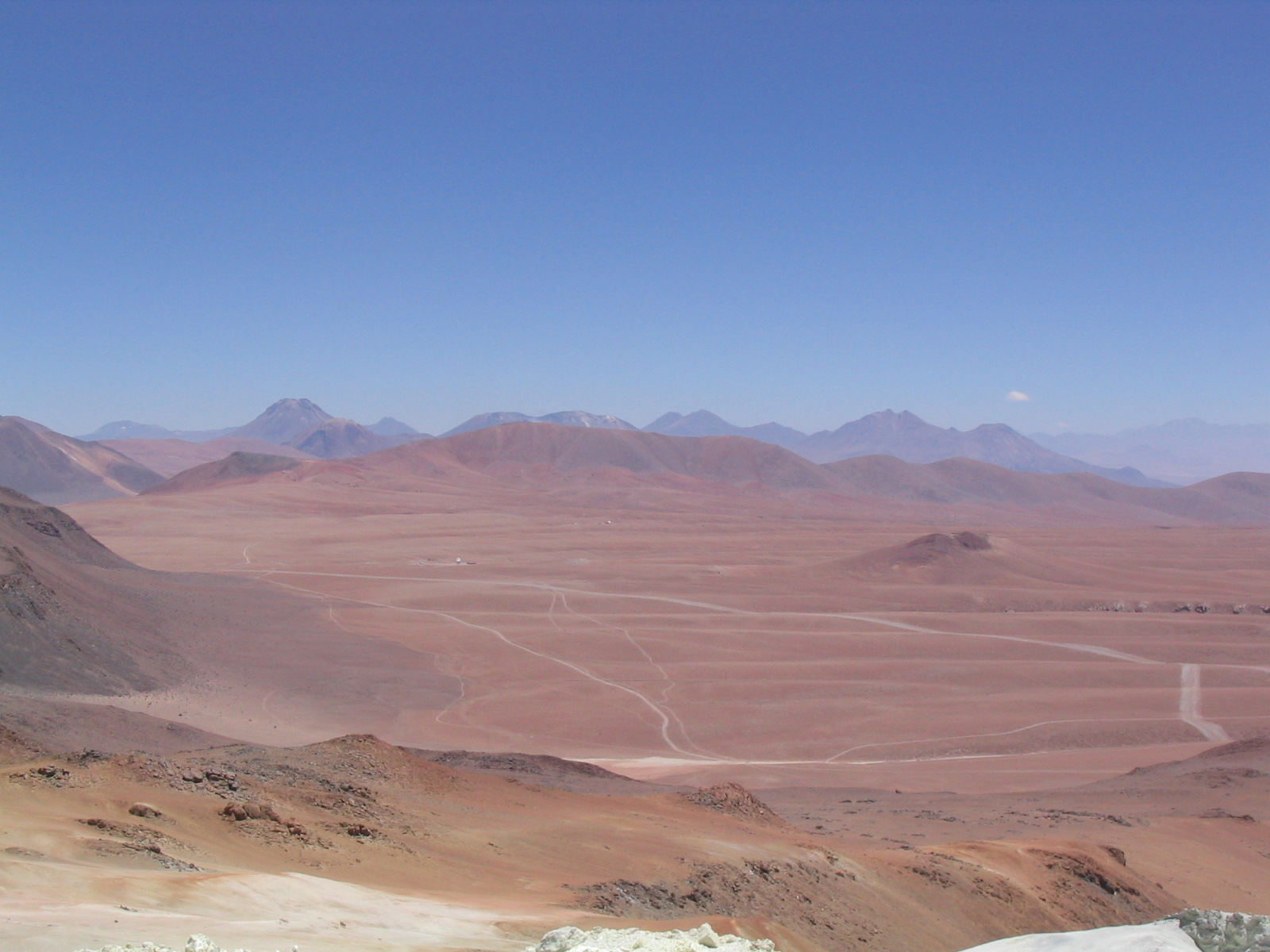 Llano de Chajnantor from Cerro Toco. APEX (left) and CBI (far center) can be seen.